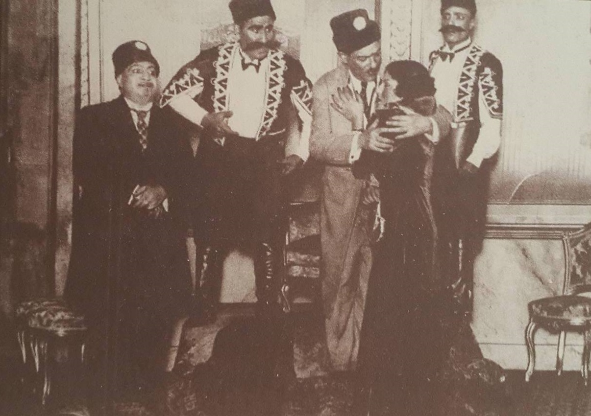 Naguib el-Rihani and some of his acting group performing on stage a play entitled "Qismiti" (My Fortune), which was played in 1936.